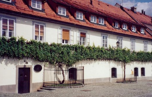 The oldest grape vine in the world growing outside the Old Vine House, with a daughter vine to the right, in the Slovenia city of Maribor.